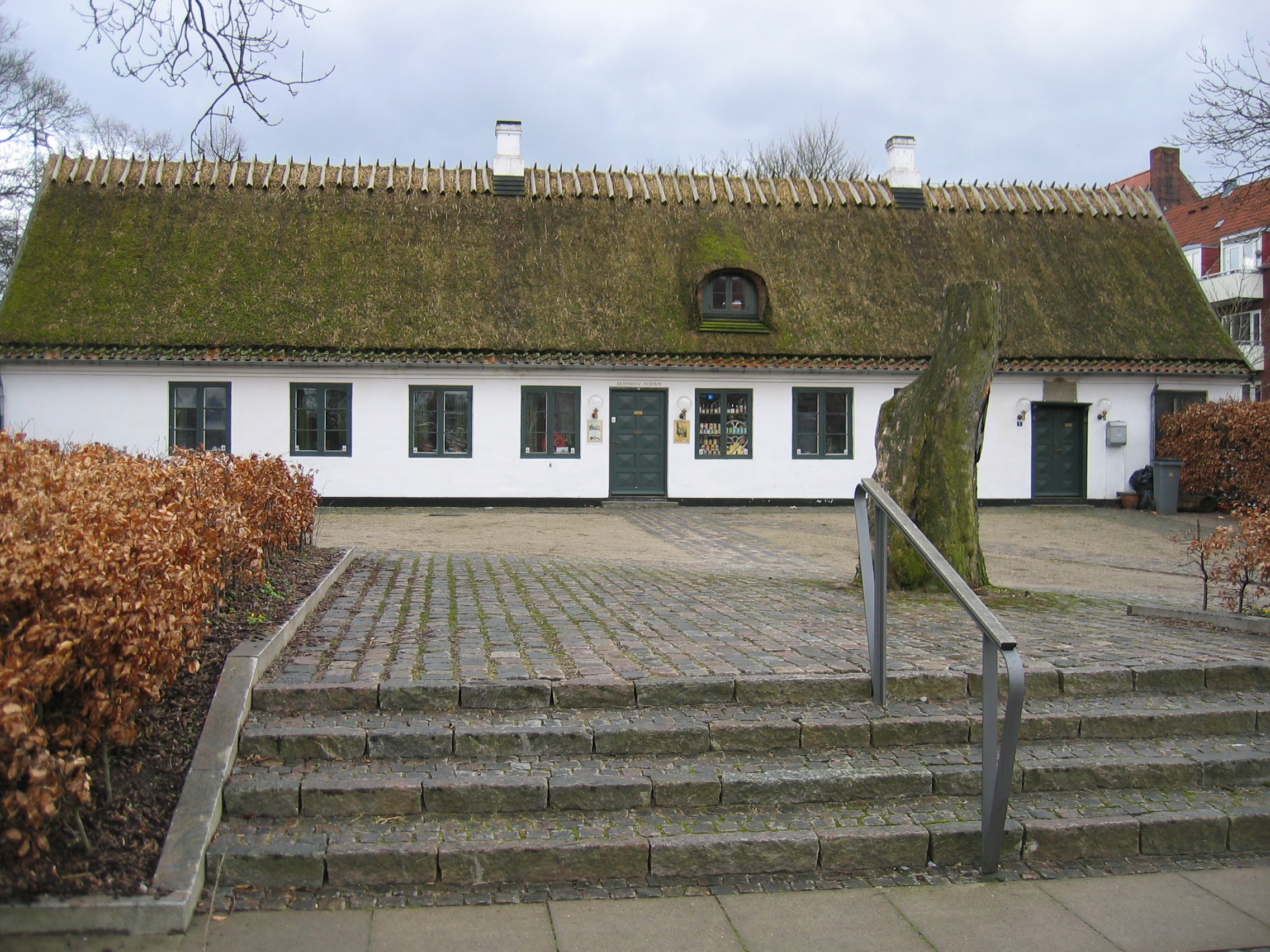 The former school at Brønshøj, Denmark